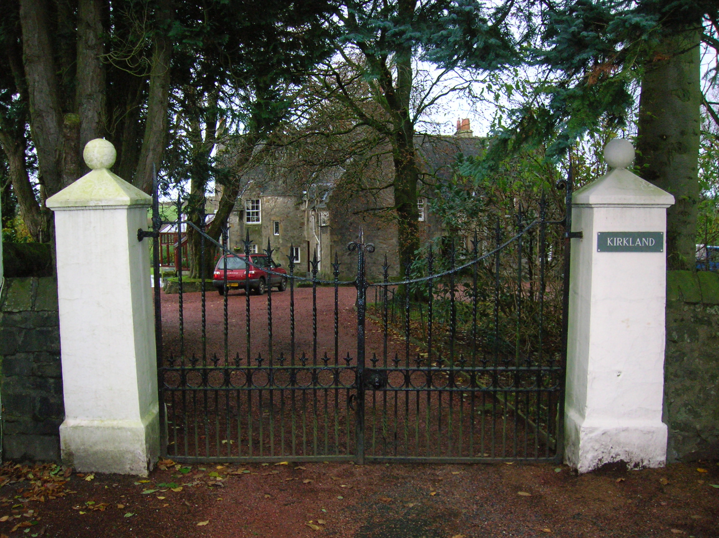 The ancient Manse at Dunlop, North Ayrshire, Scotland. The 19th century manse is across the road from here.